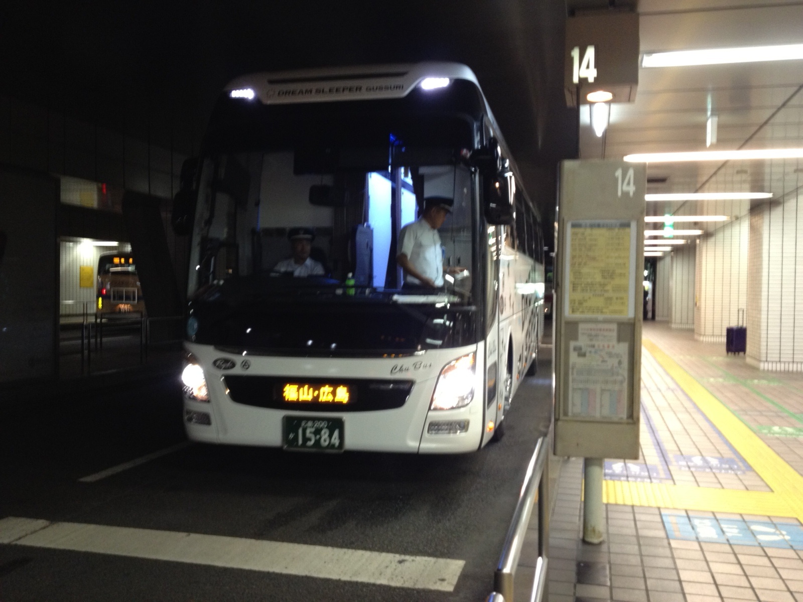 "Dream Sleeper"Bus at Yokohama Station (Chugoku-bus,Hyundai UNIVERSE)